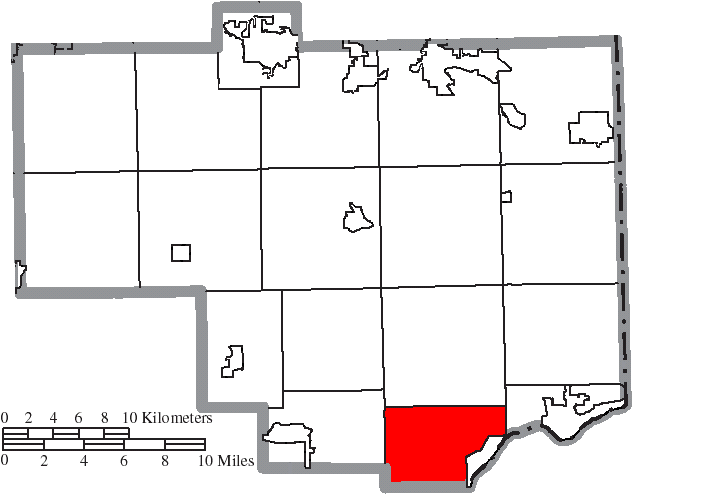 Map of the municipal and township boundaries of Columbiana County, Ohio, United States, as of the 2000 census, with the location of Yellow Creek Township highlighted. Township borders are shown only in unincorporated areas in order to differentiate incorporated and unincorporated areas more clearly.